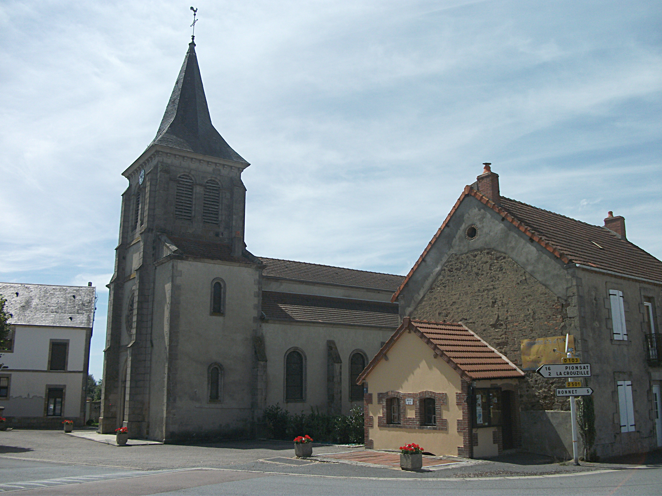 Church of Ars-les-Favets, Puy-de-Dôme, Auvergne-Rhône-Alpes, France. [18870]